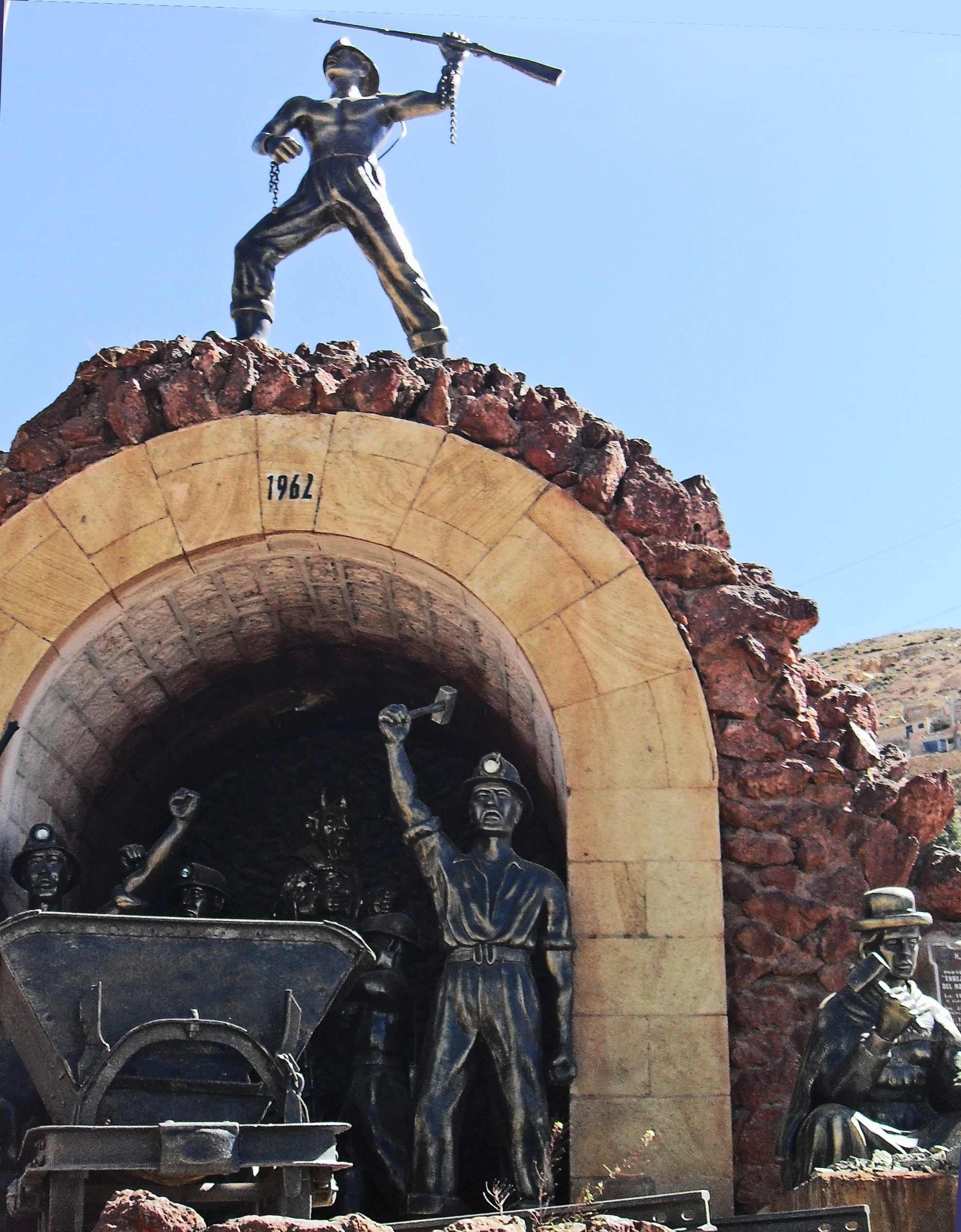 VLUU L100, M100 / Samsung L100, M100 Monumento al minero en la ciudad de Oruro